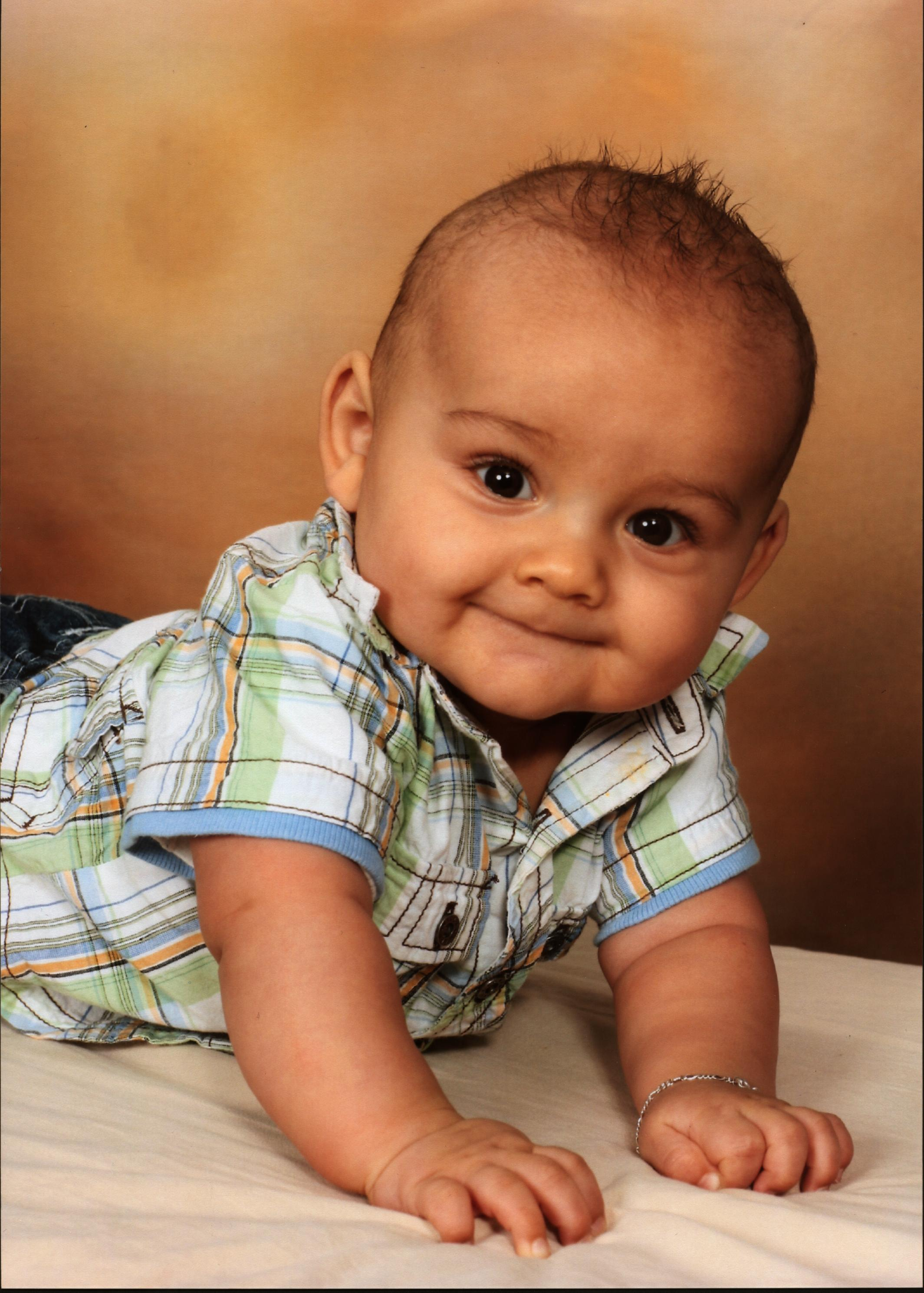 my sweet little boy